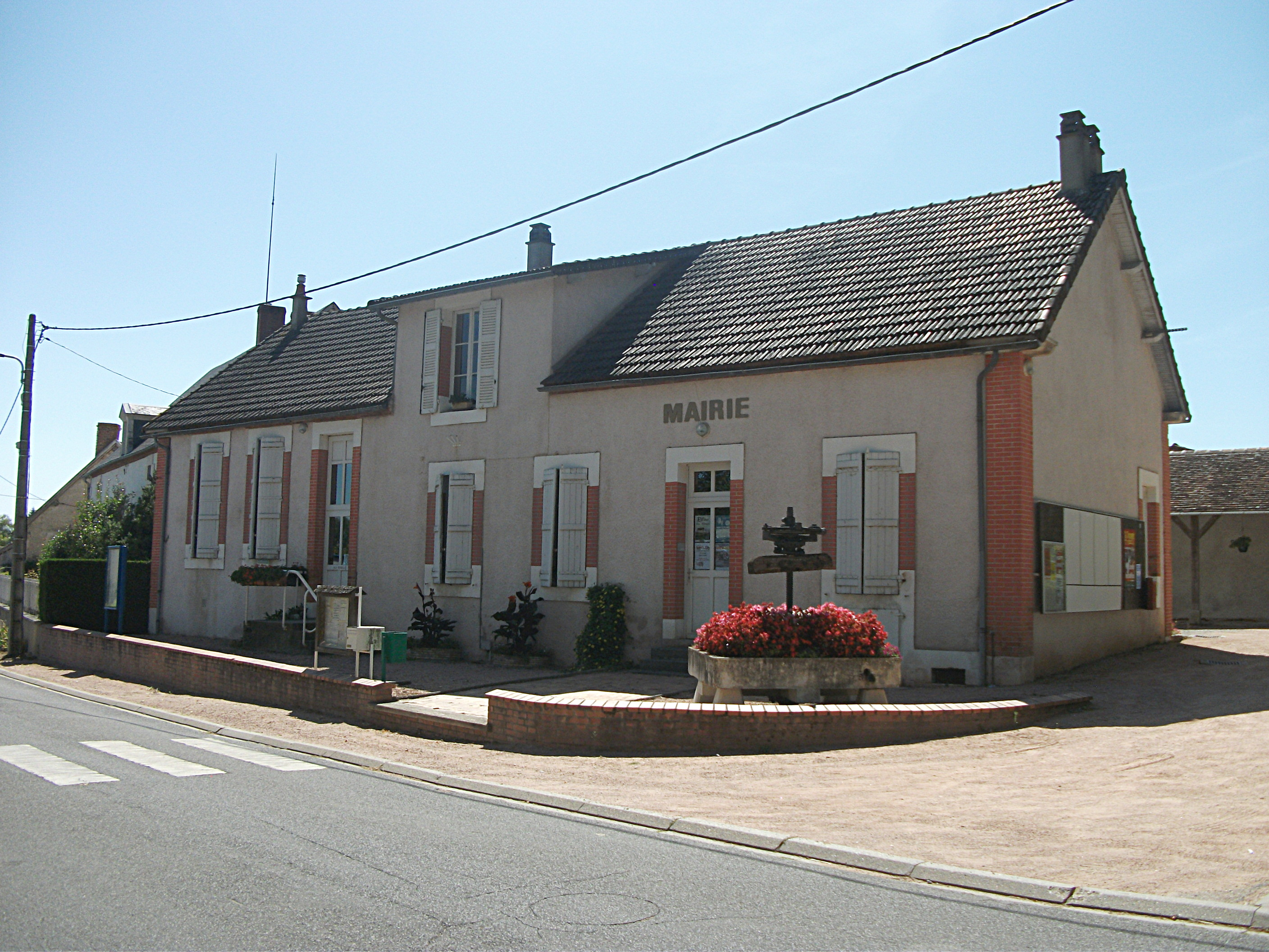 Town hall of Montord, Allier, Auvergne-Rhône-Alpes, France. [18964]